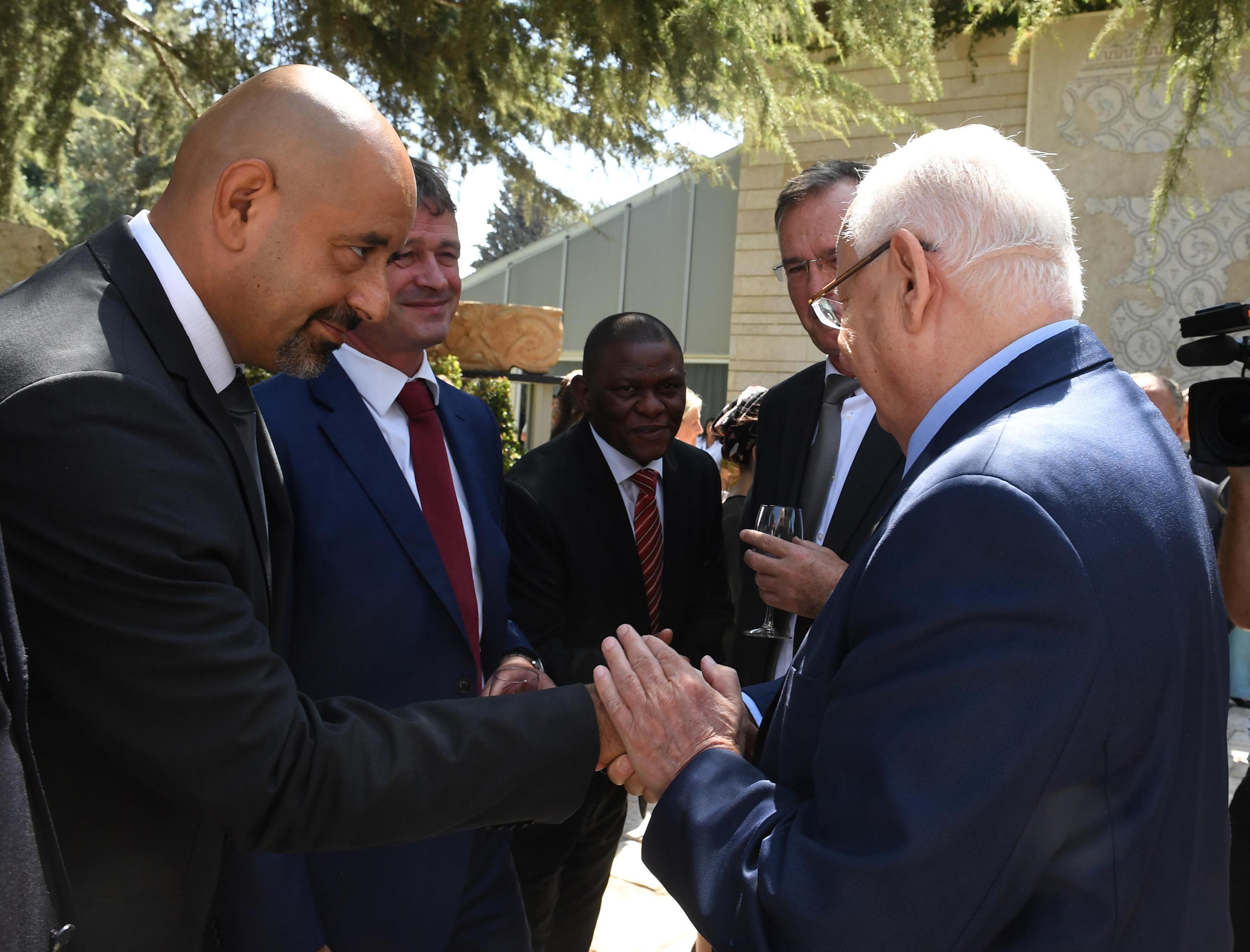 President of the State of Israel Reuven Rivlin and his wife at the President's Residence during a festive reception for the New Year with the diplomatic corps stationed in Israel. Monday, September 18, 2017. Photo Credit: Mark Neyman / GPO.